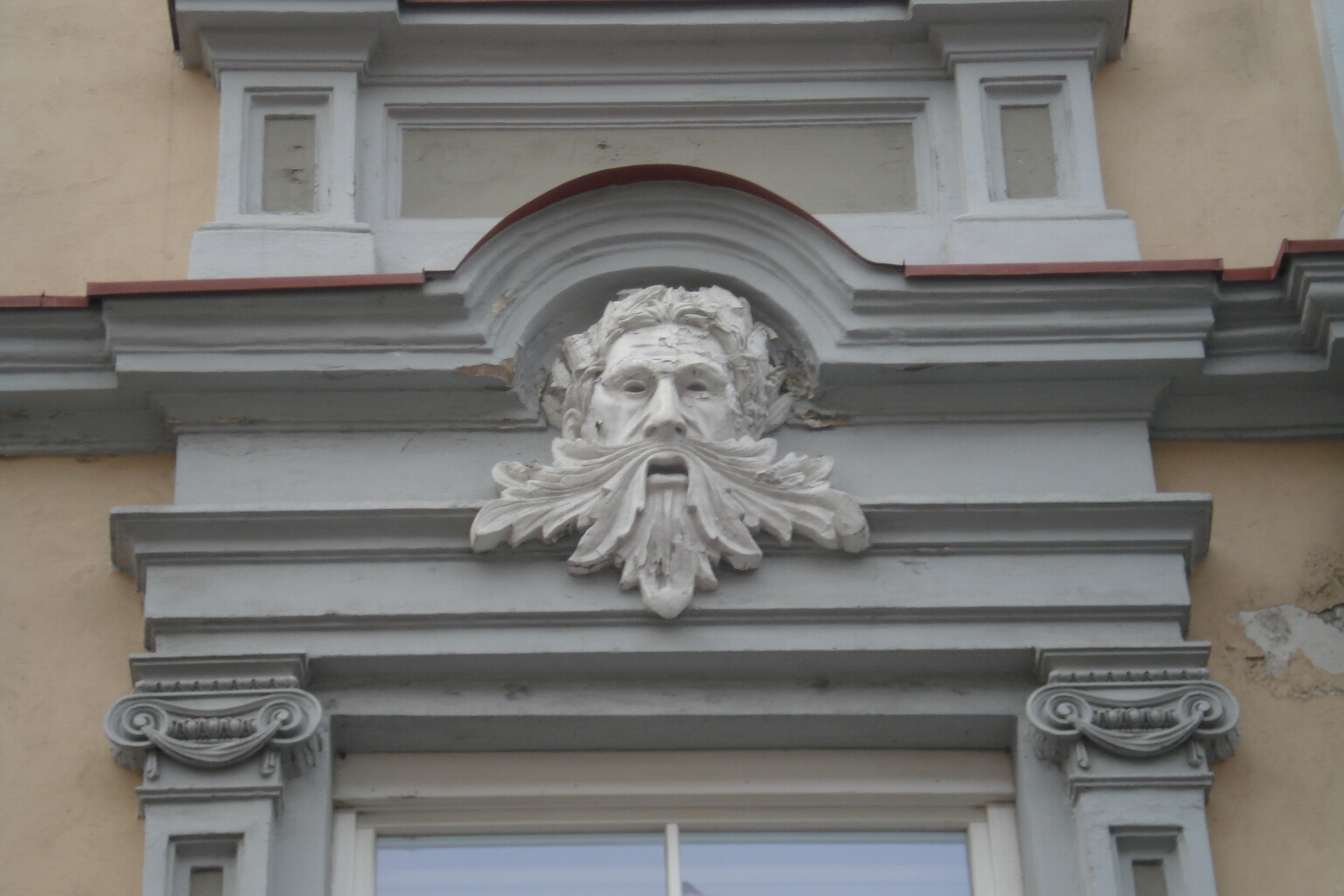 Didžioji Street 5 in Vilnius. Detail of the facade